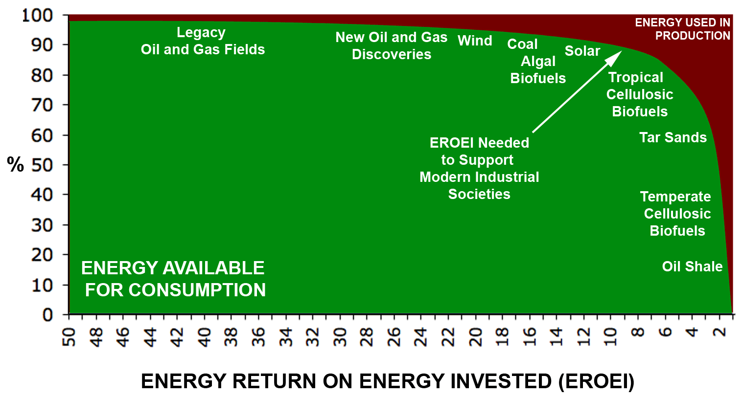 The Net Energy Cliff: plot of "Energy available for consumption" (y axis) vs "EROEI" (x axis), different energy sources are pictured: Coal, Legacy/Modern/Future Oil and Gas fields, Wind, Solar, etc. As EROEI of modern fuels goes down, more and more energy of the society is needed to extract new fuels. Links The Energy Return on Investment Threshold, David Murphy on November 25, 2011